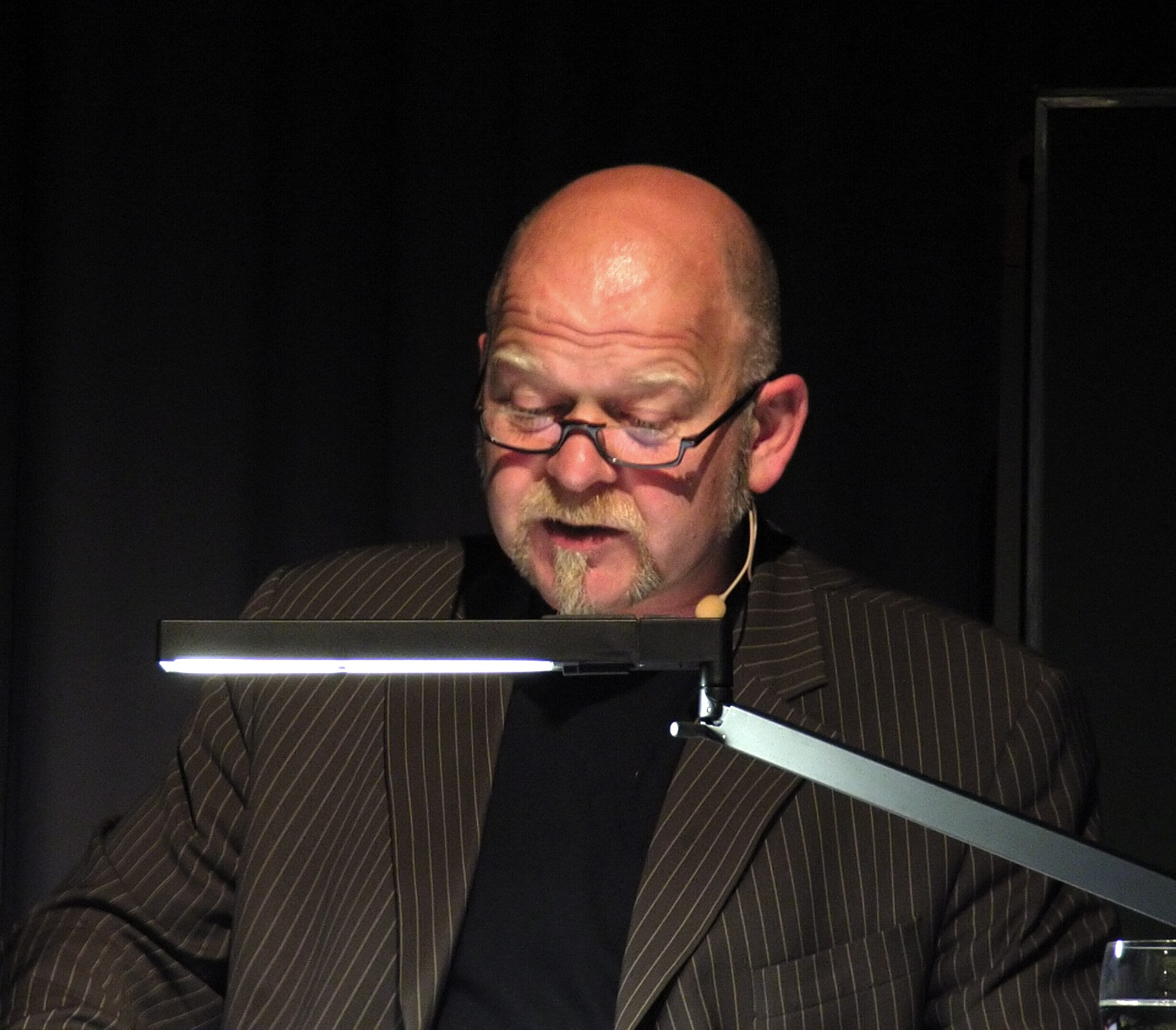 Bernd Gieseking at a reading at the Center for Interdisciplinary Research in june 2008.